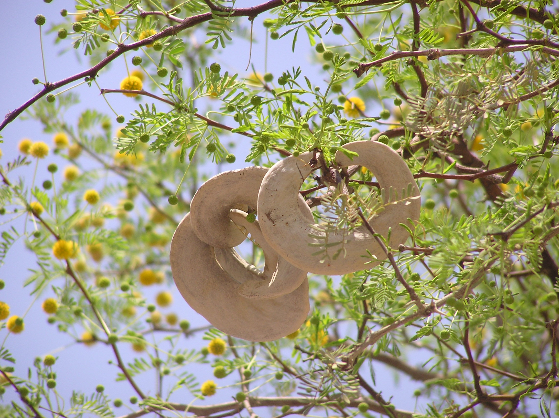 Thorntree (Acacia erioloba), Camel Thorn, Sossusvlei, Namibia